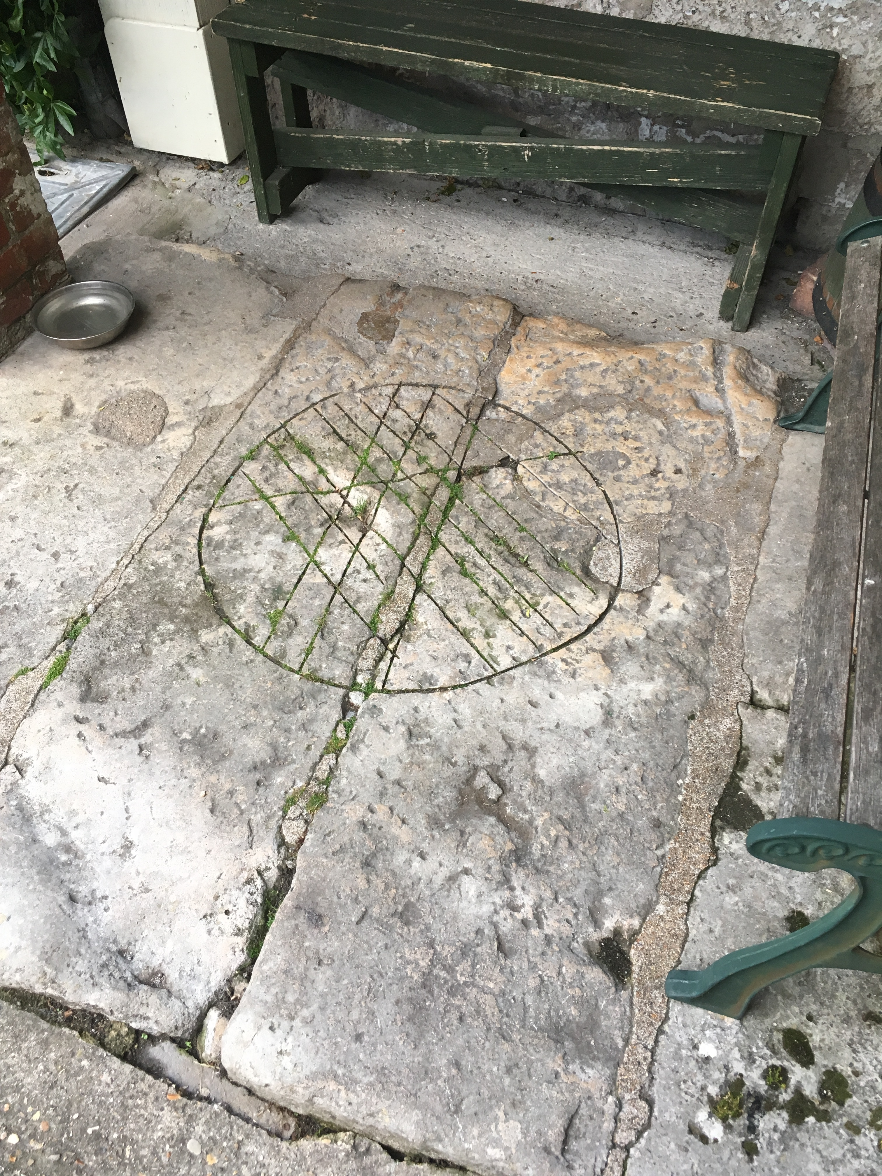 The George Inn, mystery stone at the back of the pub Wikidata has entry Q15979557 with data related to this item.